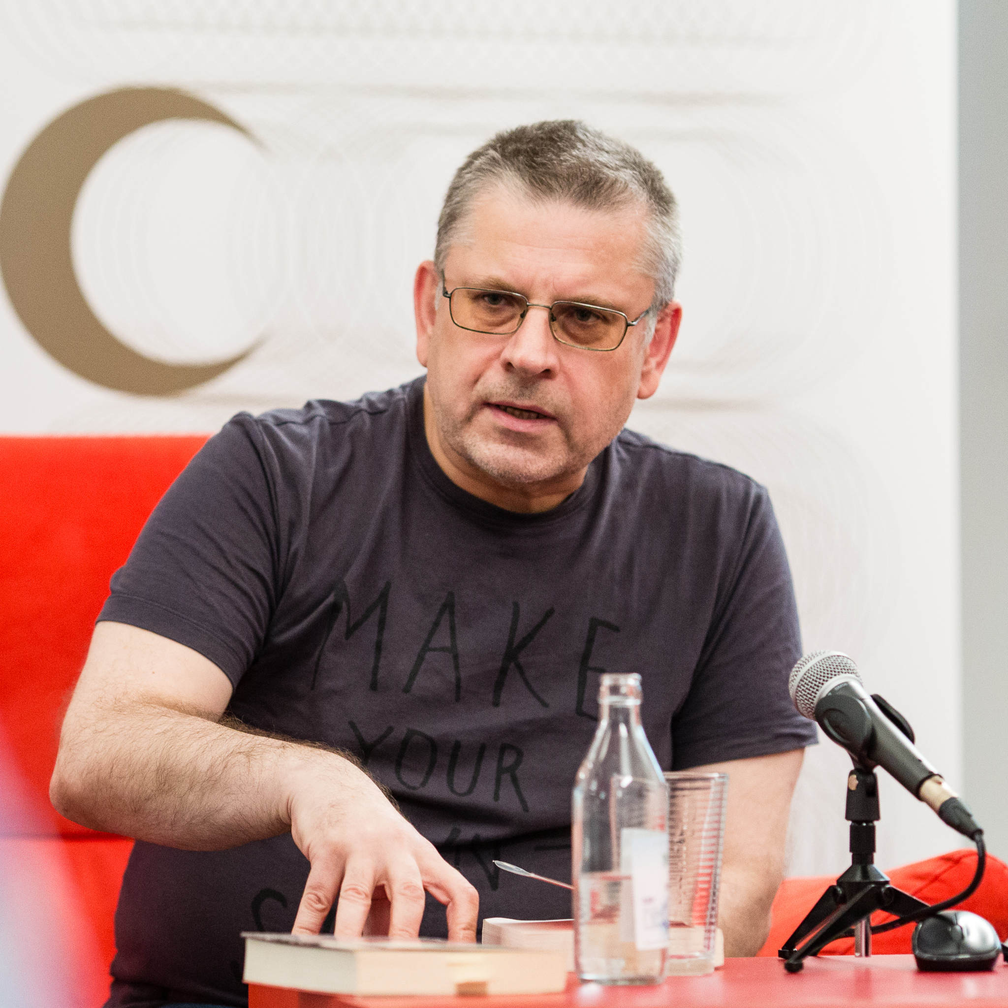 Jacek Inglot on Authors’ Reading Month 2018, Wrocław, Poland